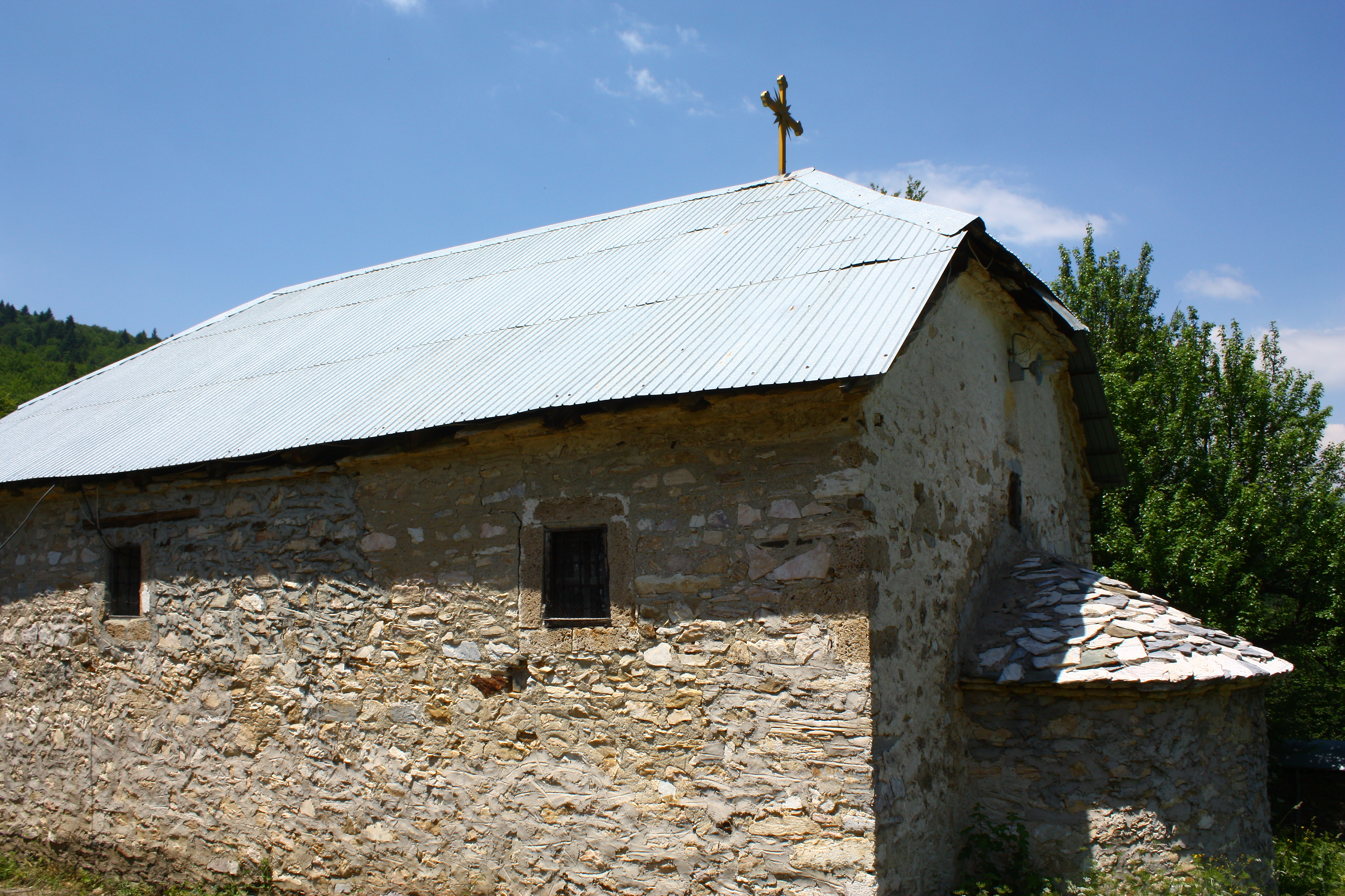 St. Nicholas Church in Kičinica, Macedonia